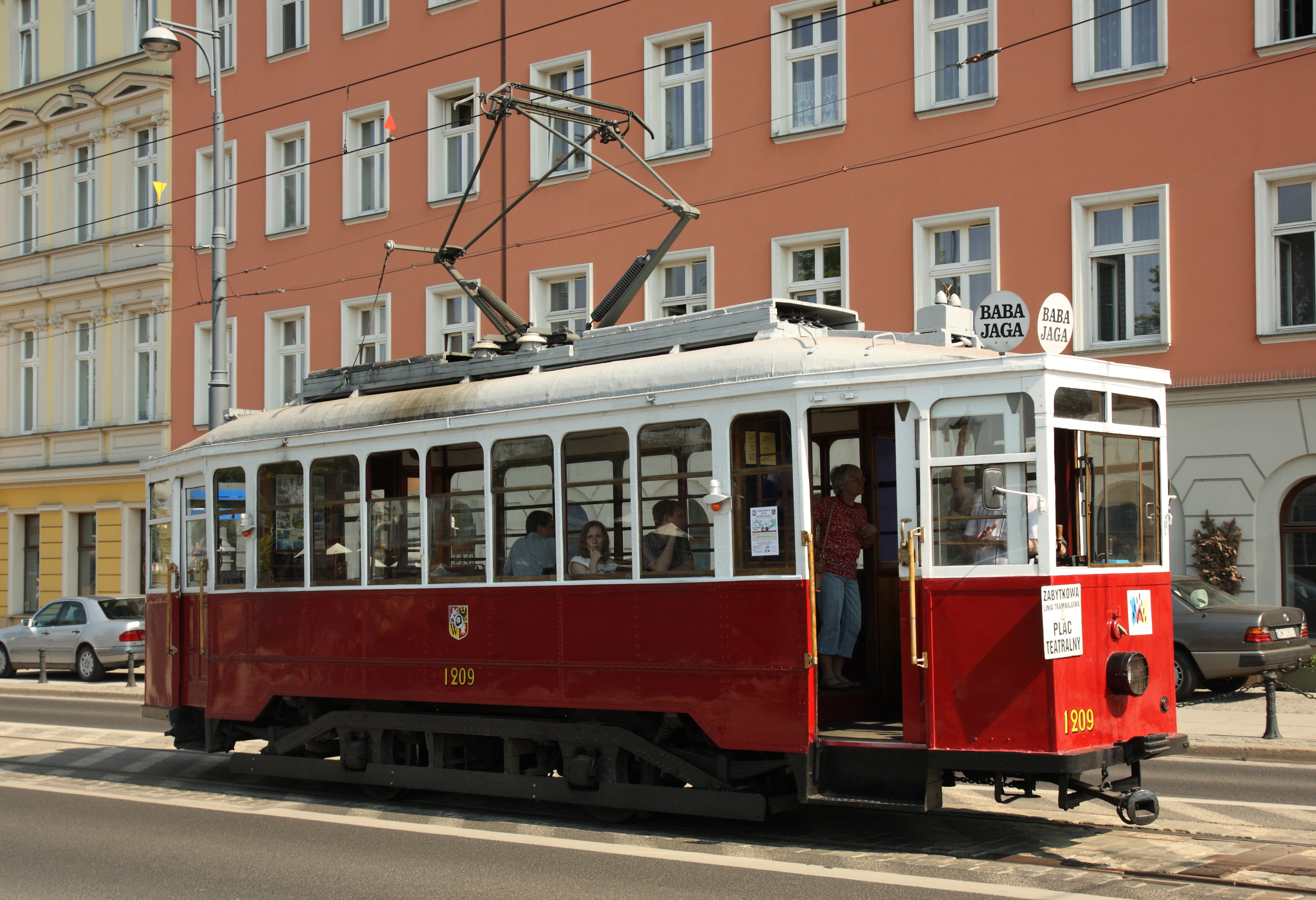 "Baba Yaga" tram (LH Standard type) in Wrocław